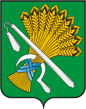 Kamyshlov (Sverdlovsk oblast), coat of arms